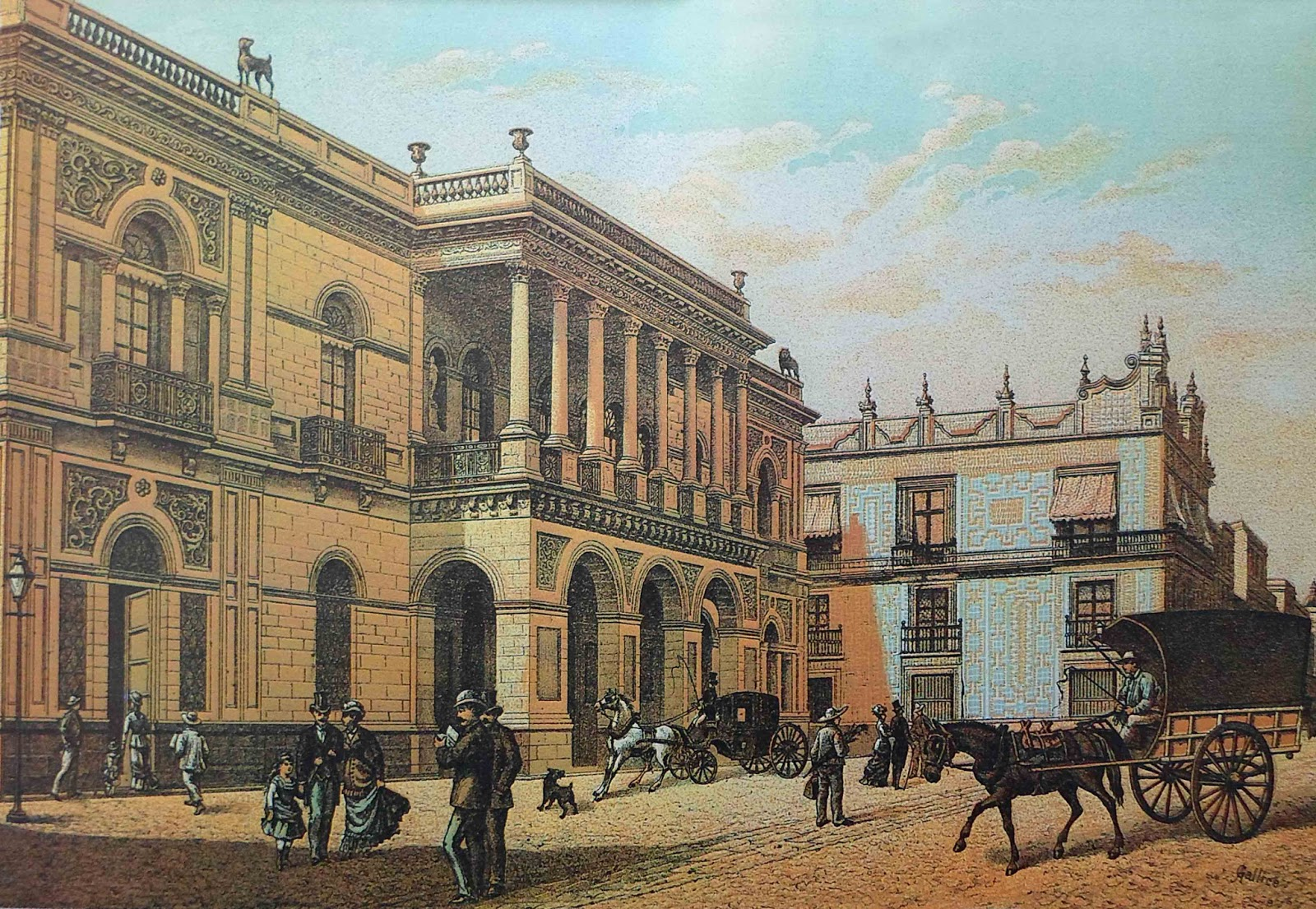 Lithograph by A. Gallice that appears in an old Mexican Album (Lito.Debray Sucs. Portal del Coliseo Viejo 1879), the "Plazuela de Guardiola", the house of the Counts del Valle de Orizaba (right) and the home of the family Escandon (left).